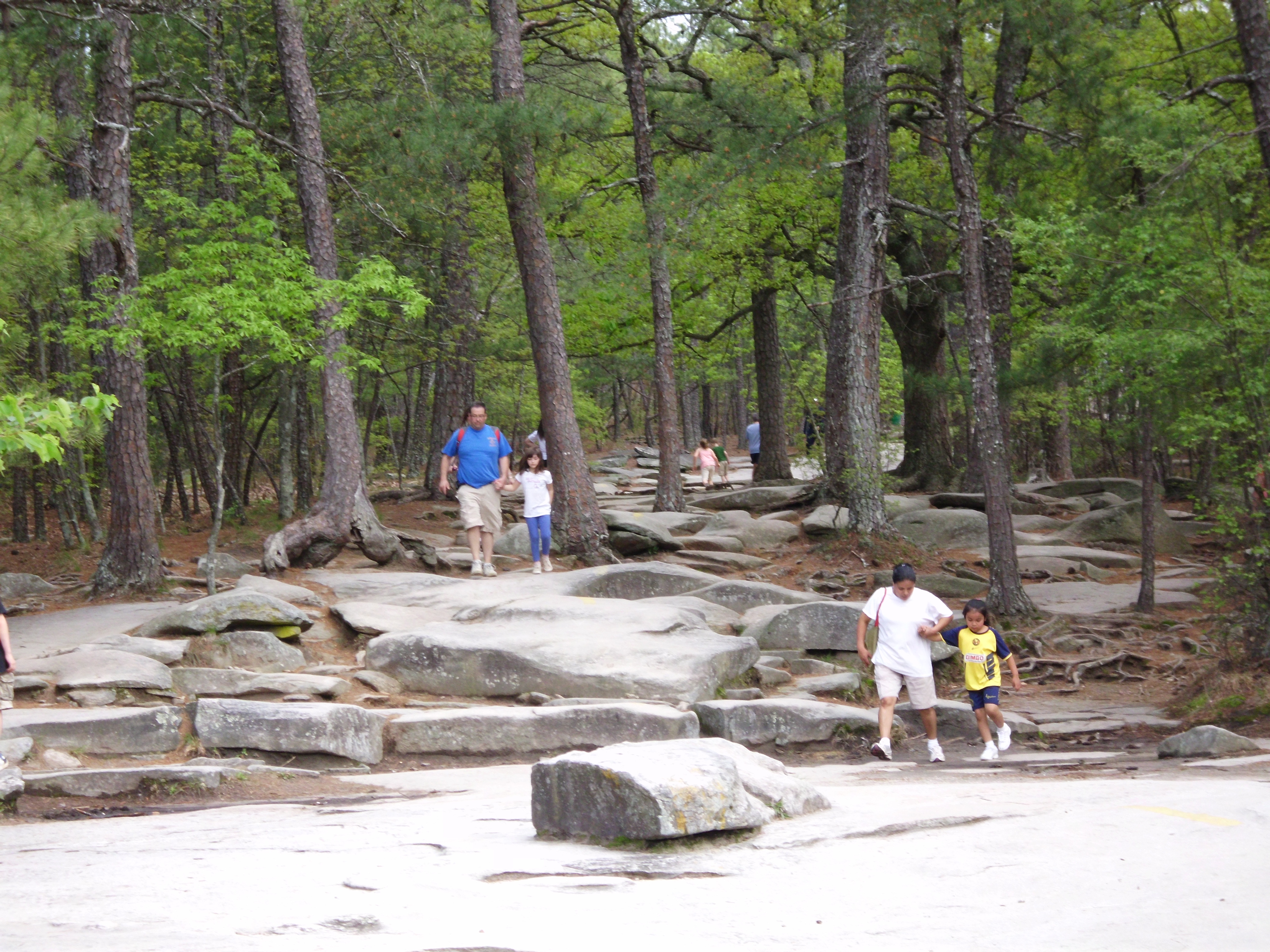 Stone Mountain walkup trail